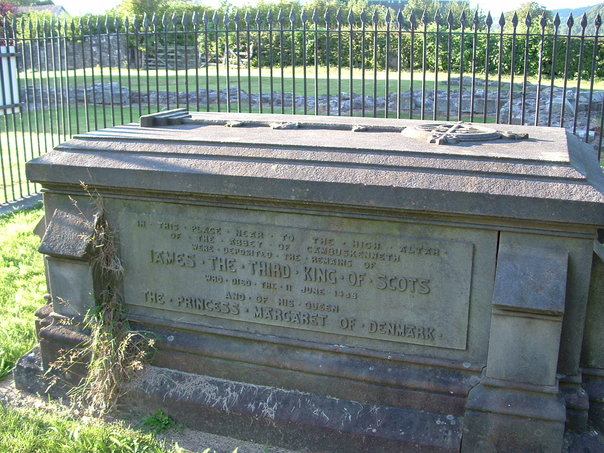 This is a photo of the tomb of James III (d. 11 June 1488) King of Scotland, at Cambuskenneth Abbey. Queen Margaret died 1486.